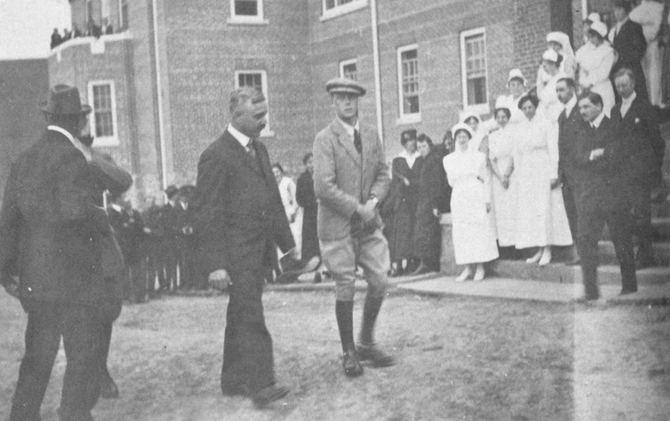 Edward VIII when Prince of Wales at Fort San Saskatchewan 1919 during tour during which he acquired the Bedingfield ranch, near Pekisko, Alberta